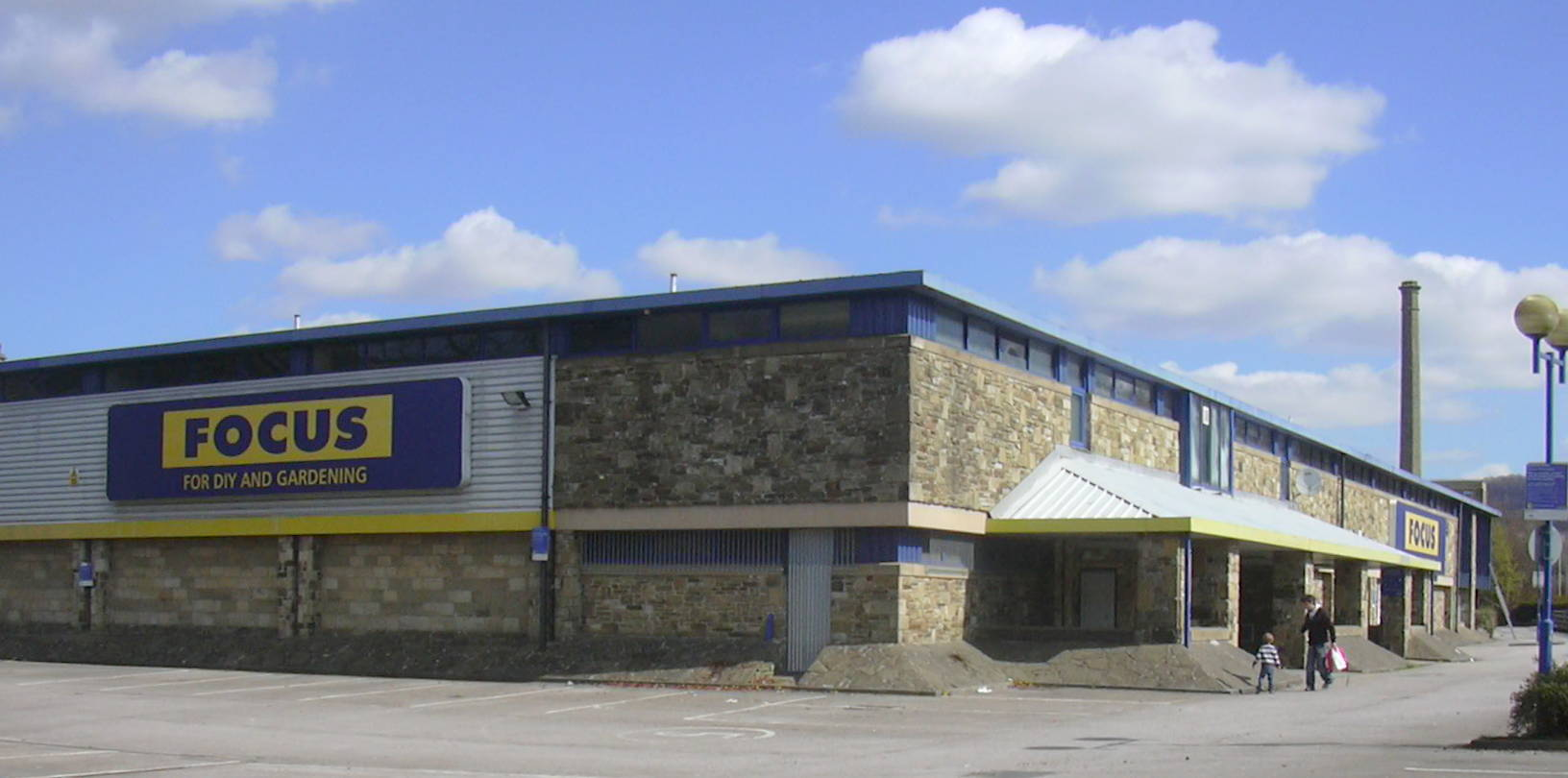 Focus DIY